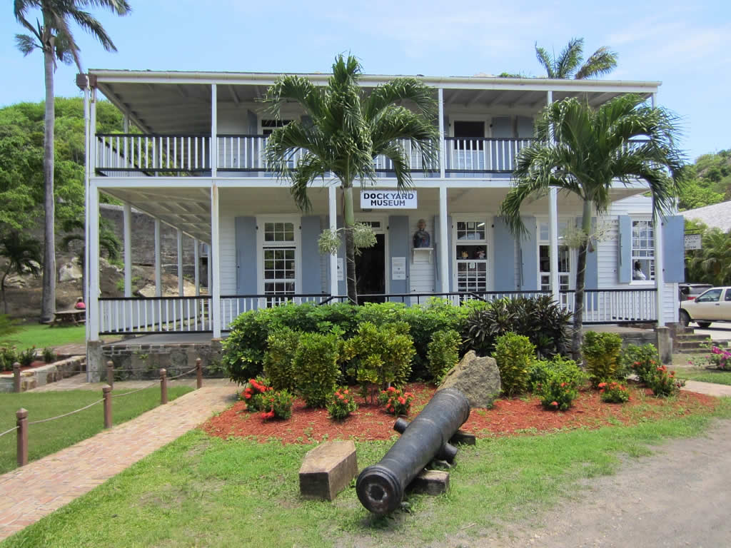 the Dockyard Museum in Admiral's House (1855) at Nelson's Dockyard, Antigua